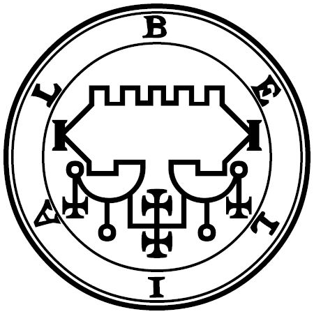 Belial seal, THE BOOK OF THE GOETIA OF SOLOMON THE KING (1904)